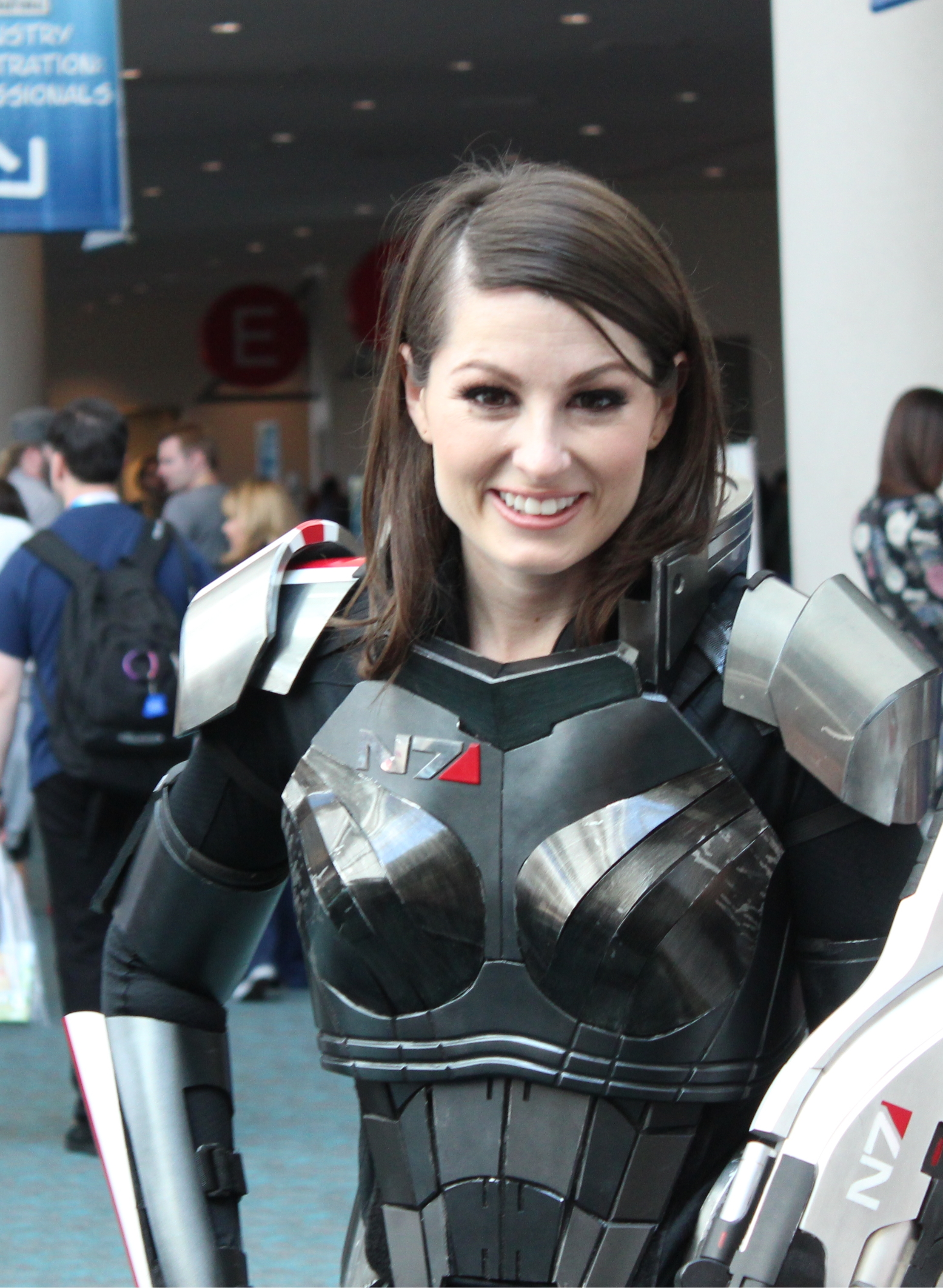 Cosplay at San Diego Comic-Con (SDCC 2012).